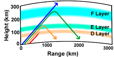 Ray diagram showing the effect of using different frequencies at the same transmission angle. The blue ray frequency is greater than the MUF and passes into space. The green ray frequency is less than the MUF but greater than the E layer MUF. This is usually the best frequency region to use for long range communications and is usually where the FOT (equal to 0.85 x MUF) exists. The orange ray frequency is less than the E layer MUF and greater than the LUF. This is best for medium range (around 500 to 1500 km) transmissions. The red ray is less than the LUF and is absorbed in the D layer.